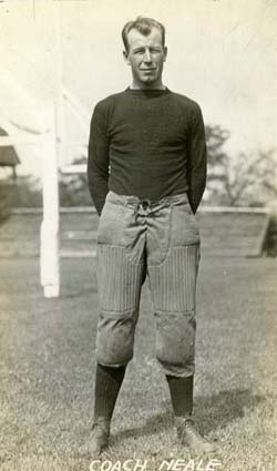 Image of Greasy Neale